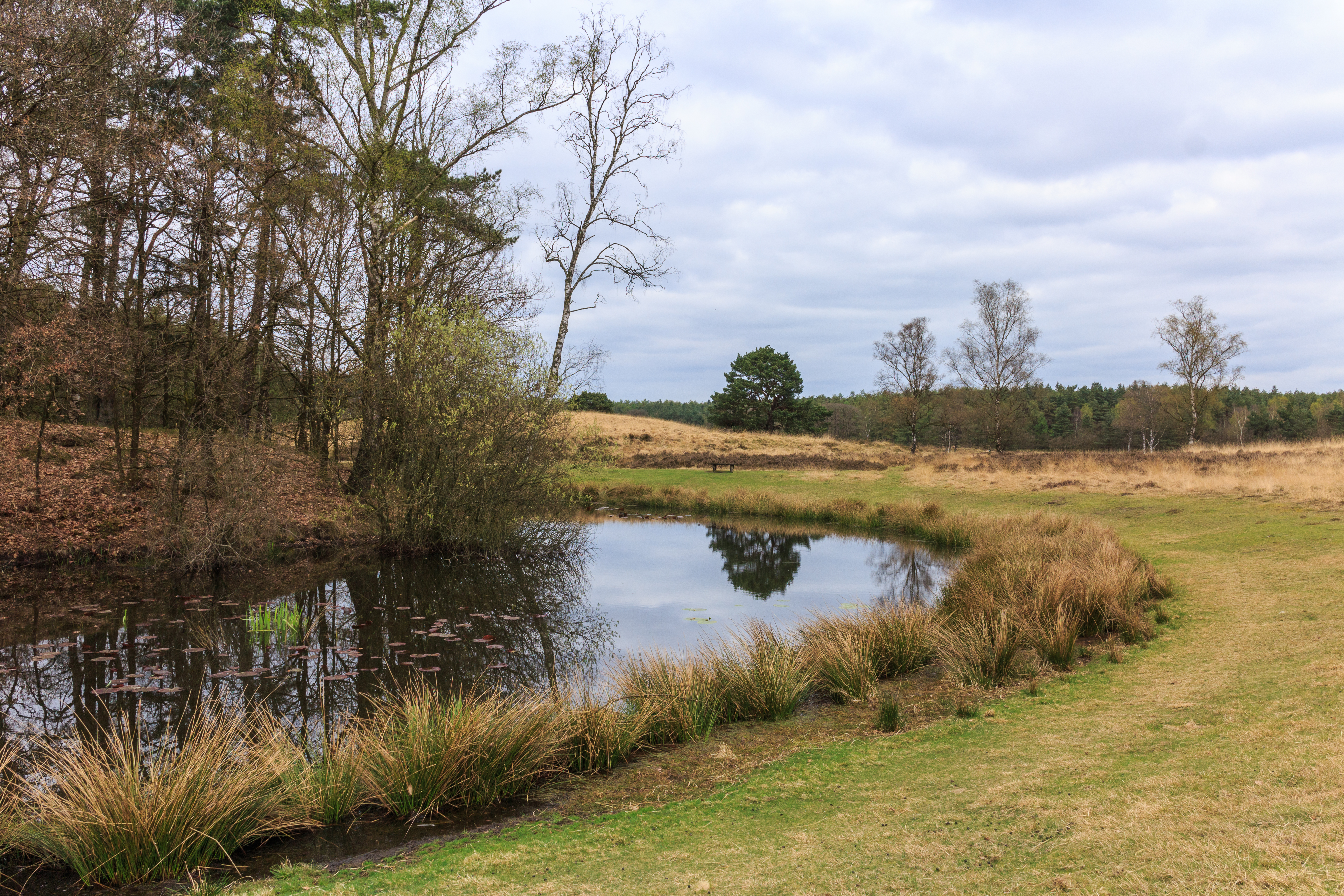 The Loenermark. heathland Small lake.